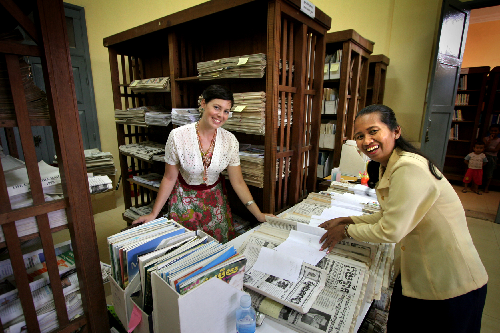 Sorting and cataloging – Australian volunteer Louise Barber with Chack Tuoch from the National Library of Cambodia. 2005. Photo: Kevin Evans